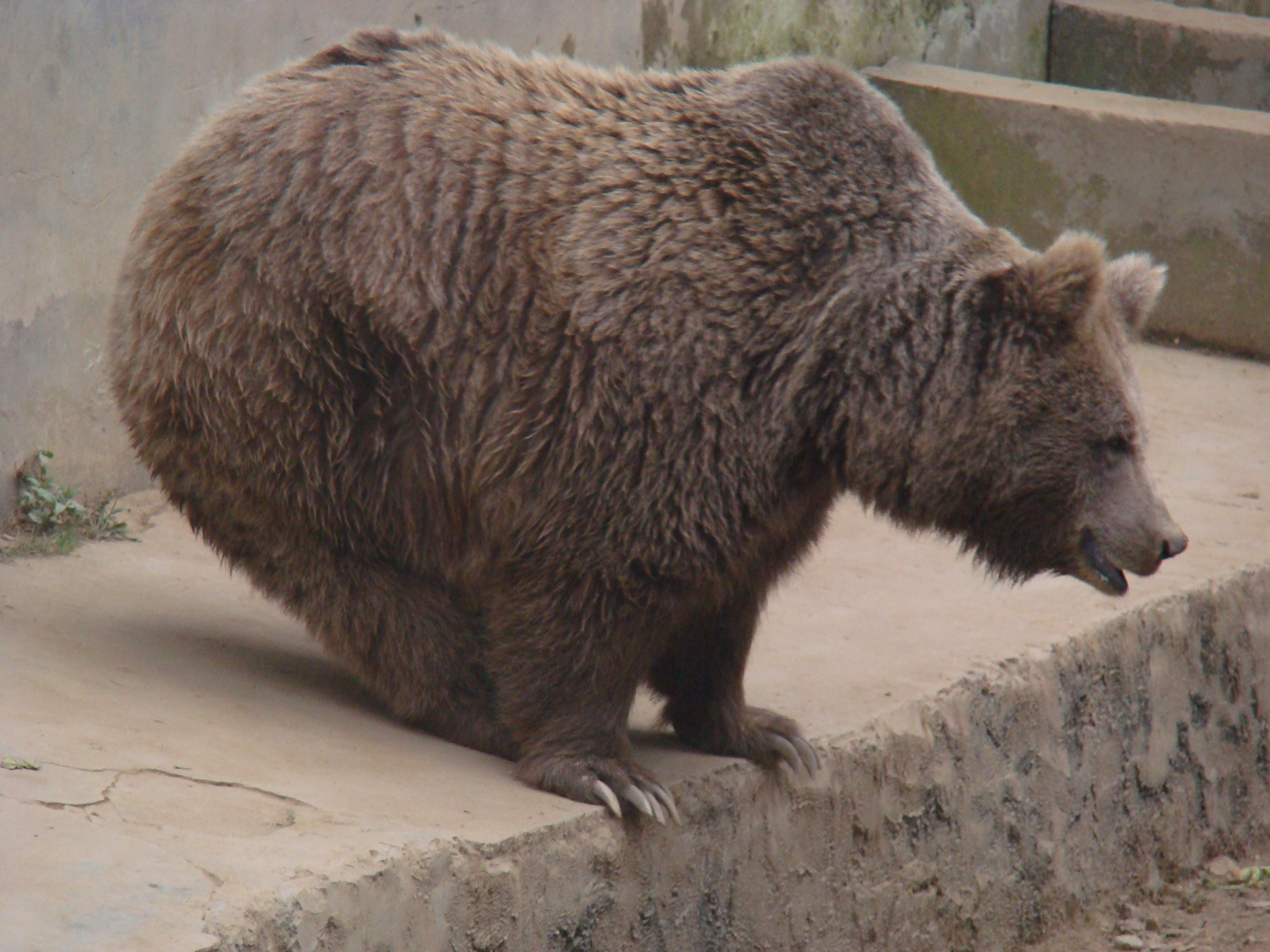 Bear at the Kufri Zoo, India.